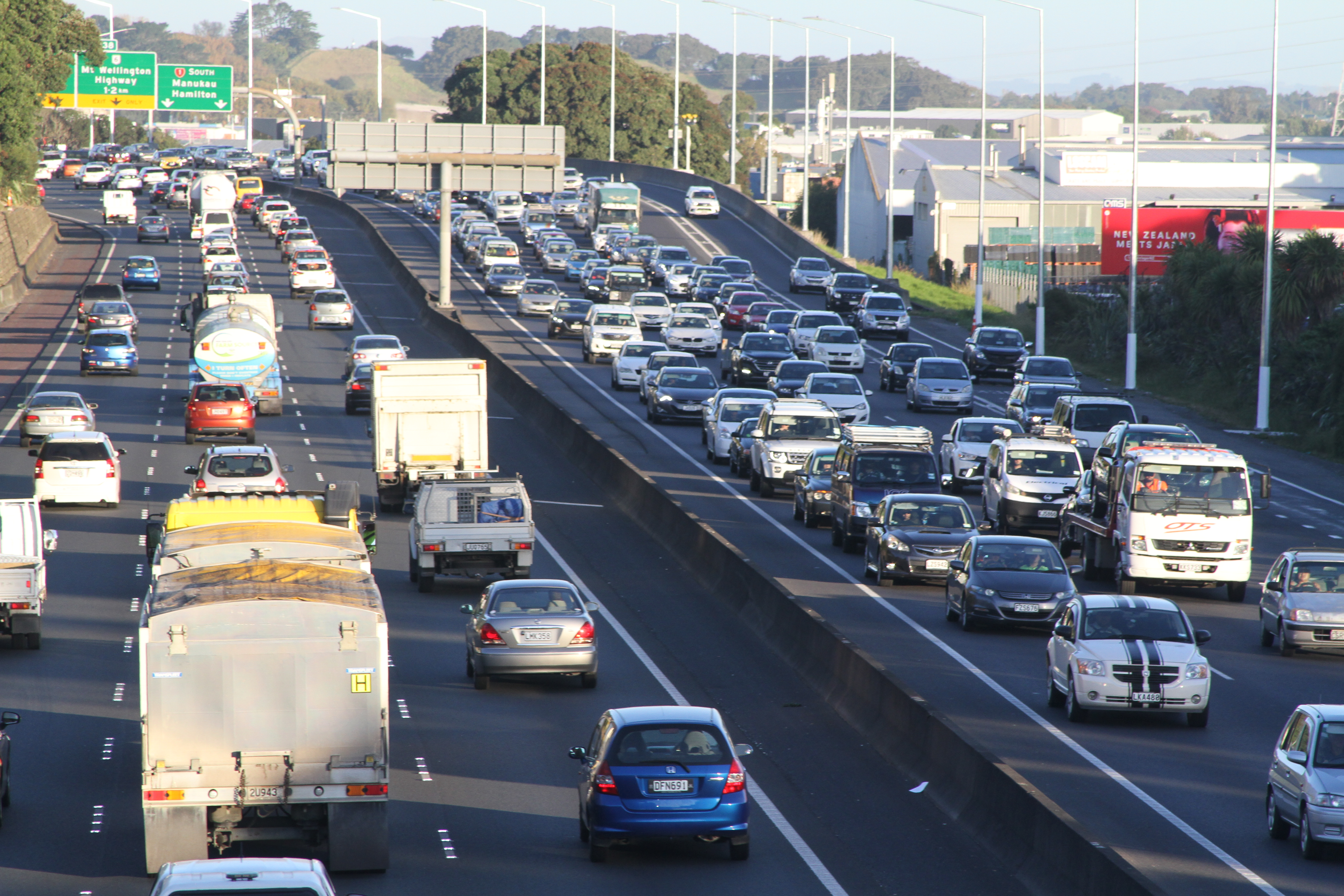 Cars and traffic on the Southern Motorway; a highway in Auckland, New Zealand. This photo has been released into the public domain. You are free to share, use and modify this image without attribution.